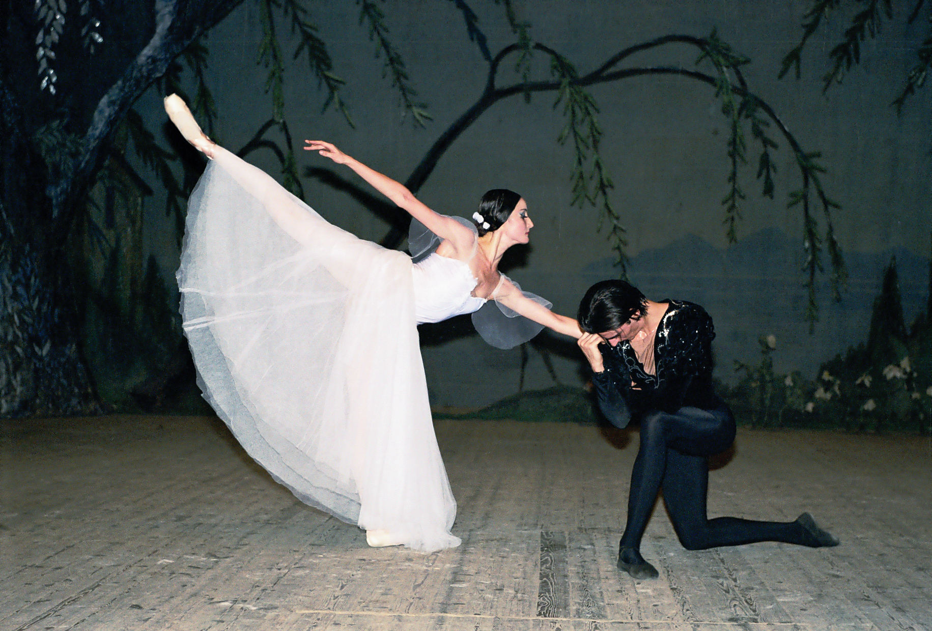 Photo from the performance of Giselle